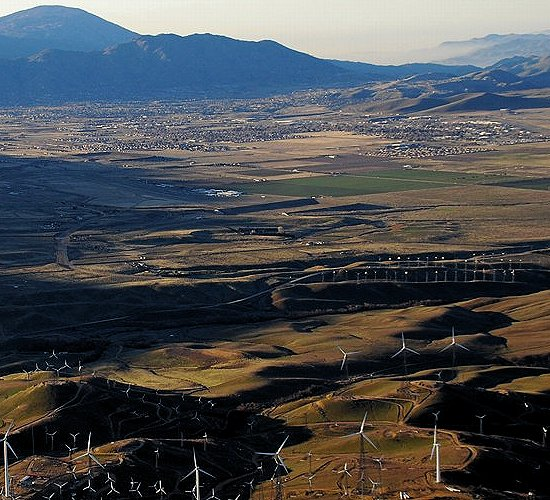 Aerial: Portion of Tehachapi wind farms